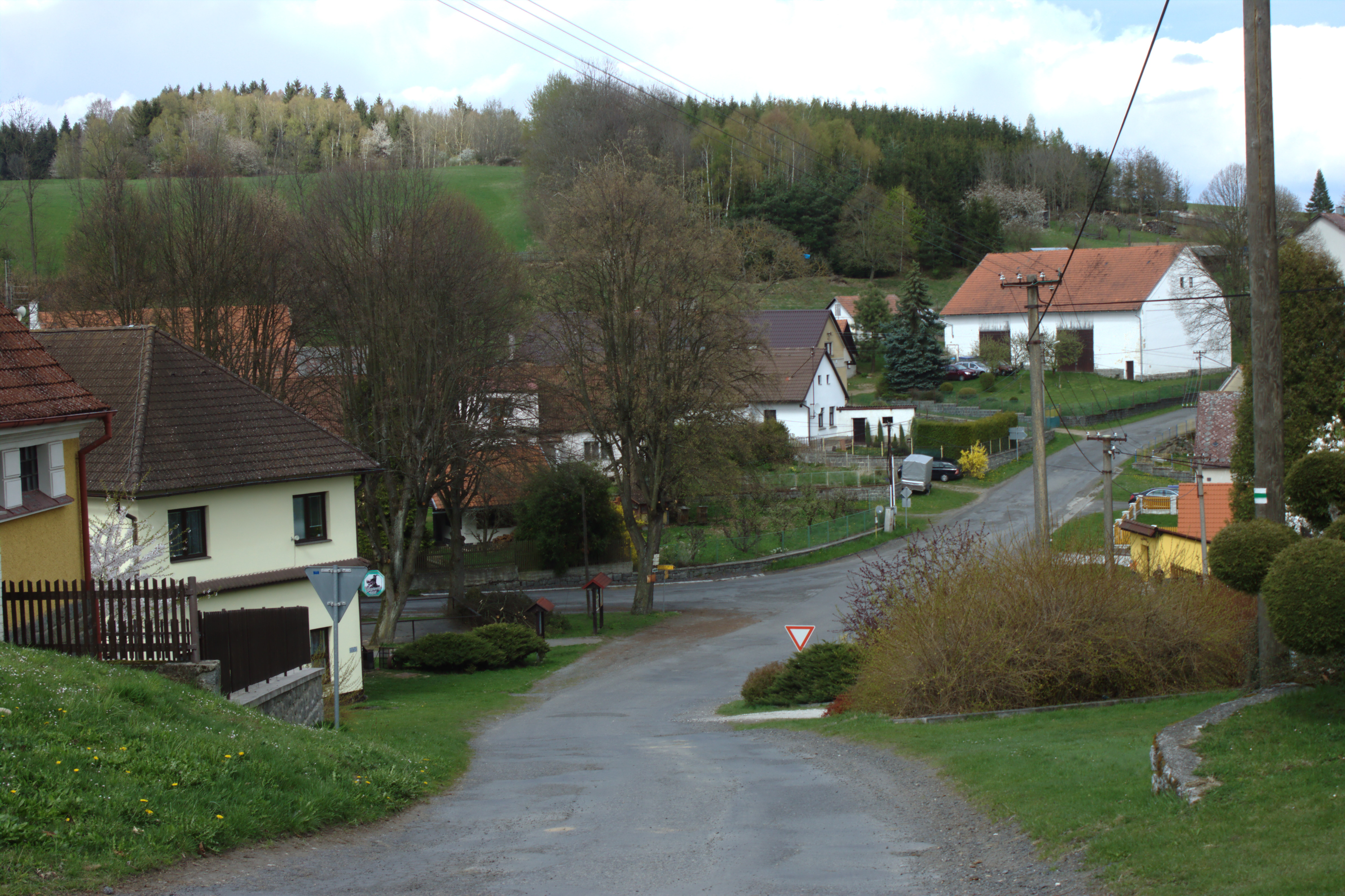 A common in the village of Nehodiv, Plzeň Region, CZ